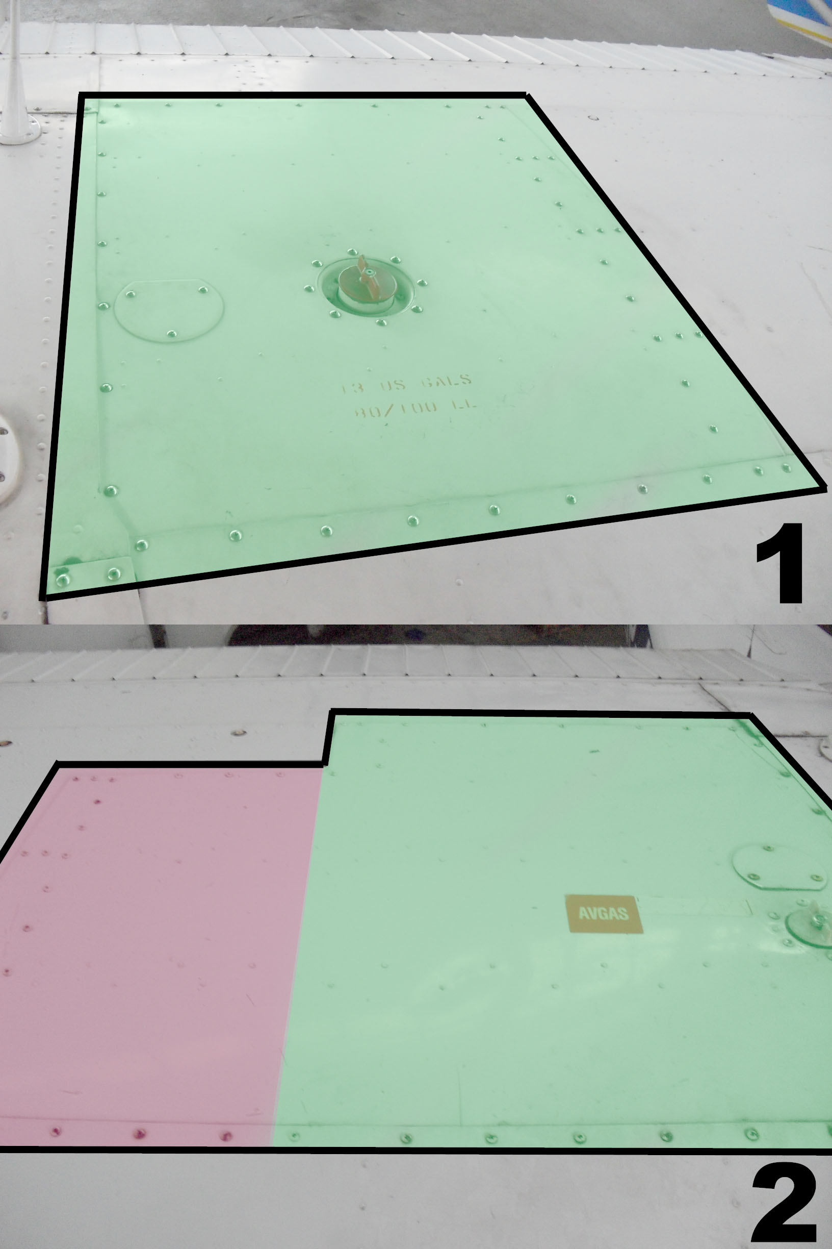 Visual comparison of Cessna 150 single standard (13 US Gallons / 49 litres) and long range (19 US gallons / 72 litres) fuel tank. Green colour on photo#1 represents standard fuel tank area, pink colour on photo #2 represents additional fuel tank area. Discovering the type of fuel tank can be done by looking at the shape that screws are making.